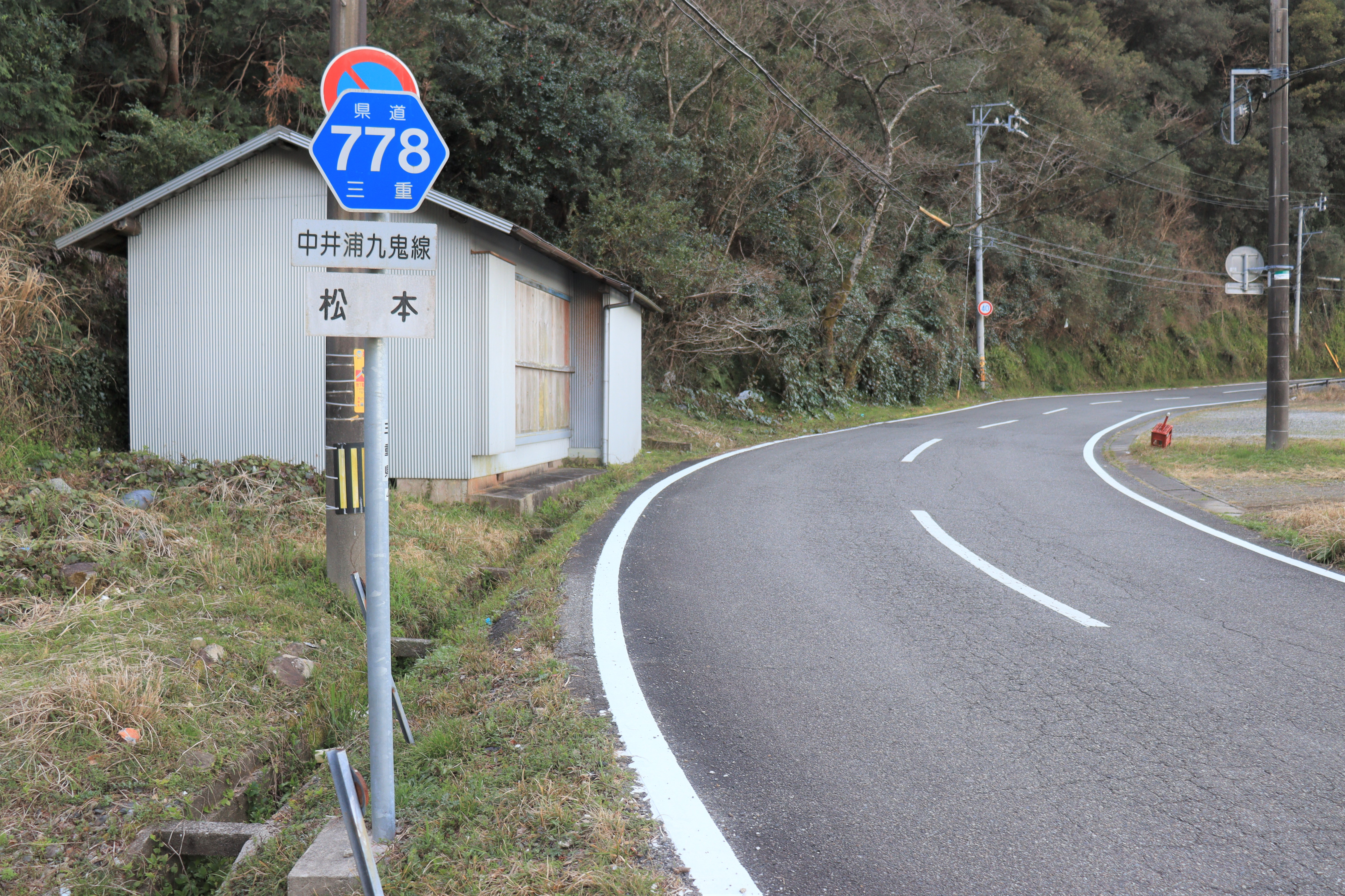 Mie Prefectural Road Route 778 in Yukunoura, Owase, Mie Prefecture, Japan.